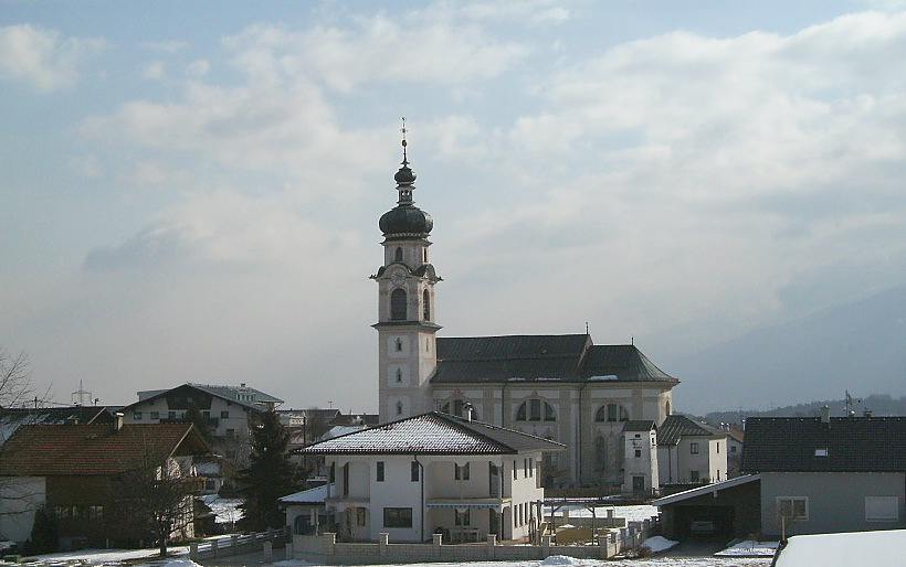 Götzens in March 2010; Church